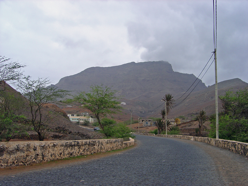 Settlement of Lameirão and Monte Verde in background, São Vicente Island, Cape Verde